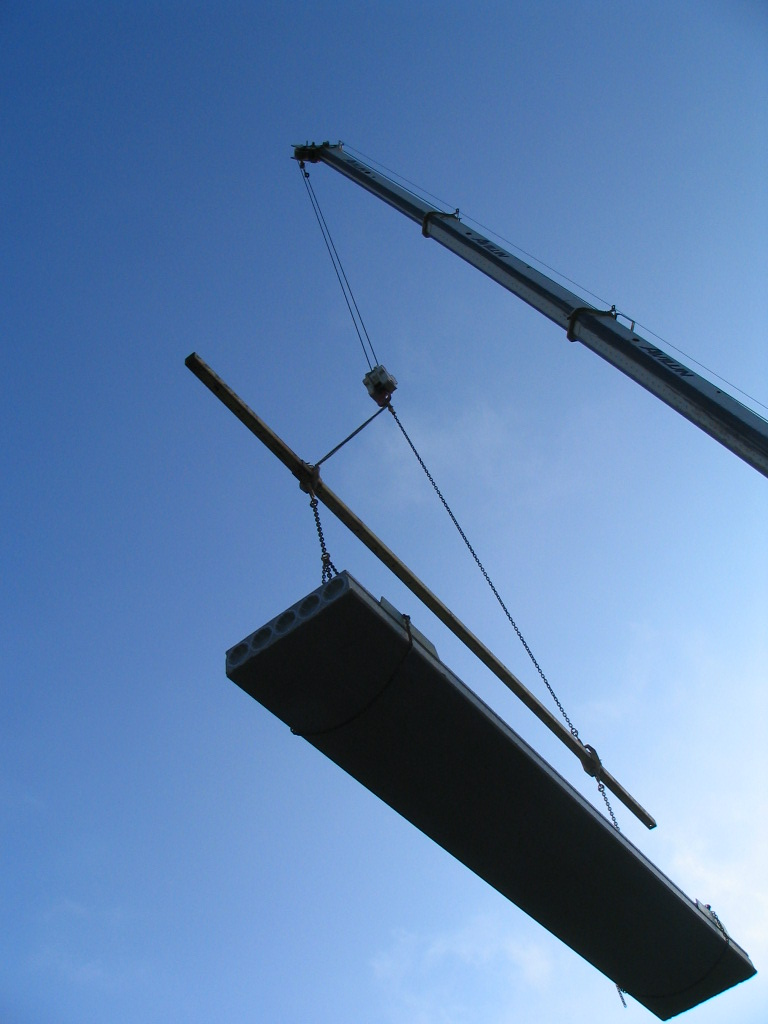 Installation of hollow-core slab.